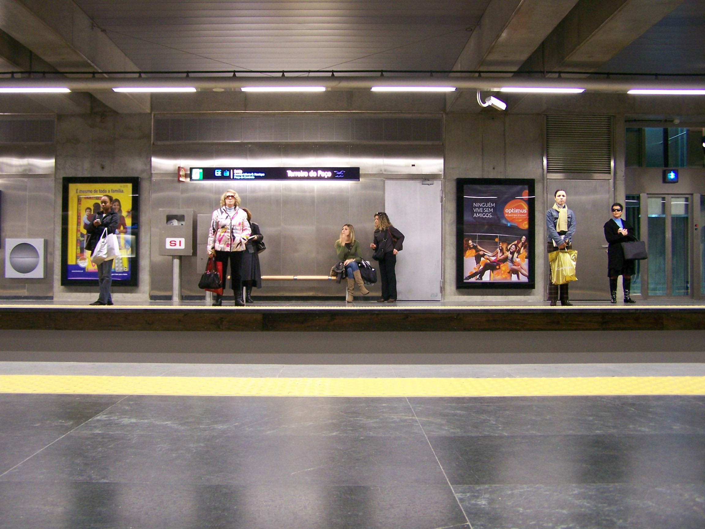 platforms of Lisbon's underground station Terreiro do Paço, Lisbon, Portugal